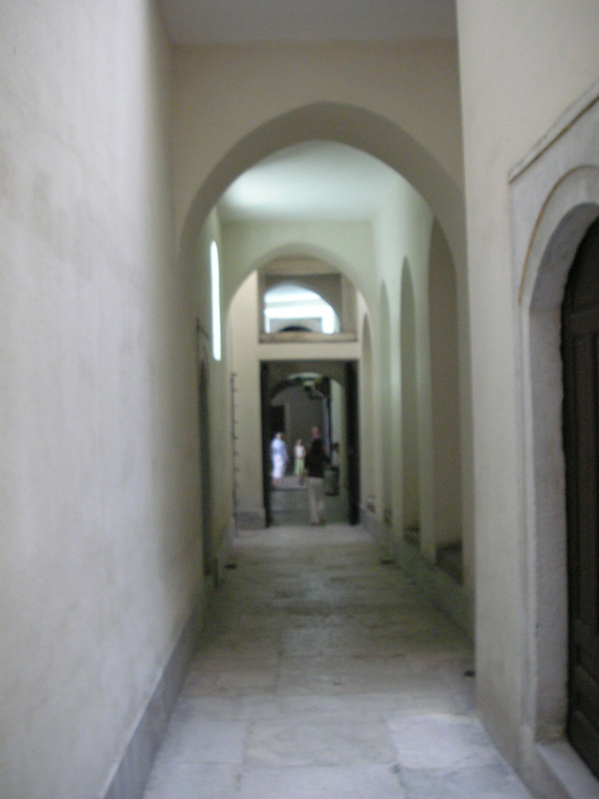 The so-called "Golden Road" in the Harem of the Topkapi Palace, Istanbul.